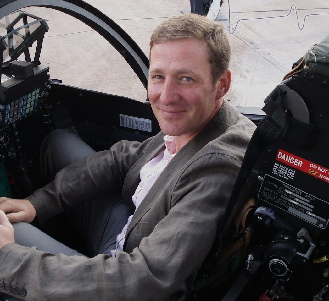 Lawrence Ward while serving in the Armed Forces Parliamentary Scheme